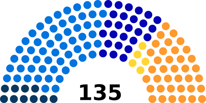 Seats diagramme of Swiss National Council (1878)